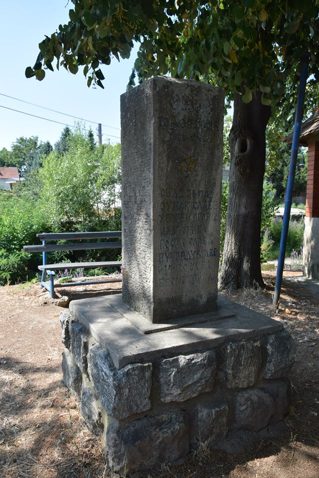 Споменик Славку Тодоровићу у Вучју